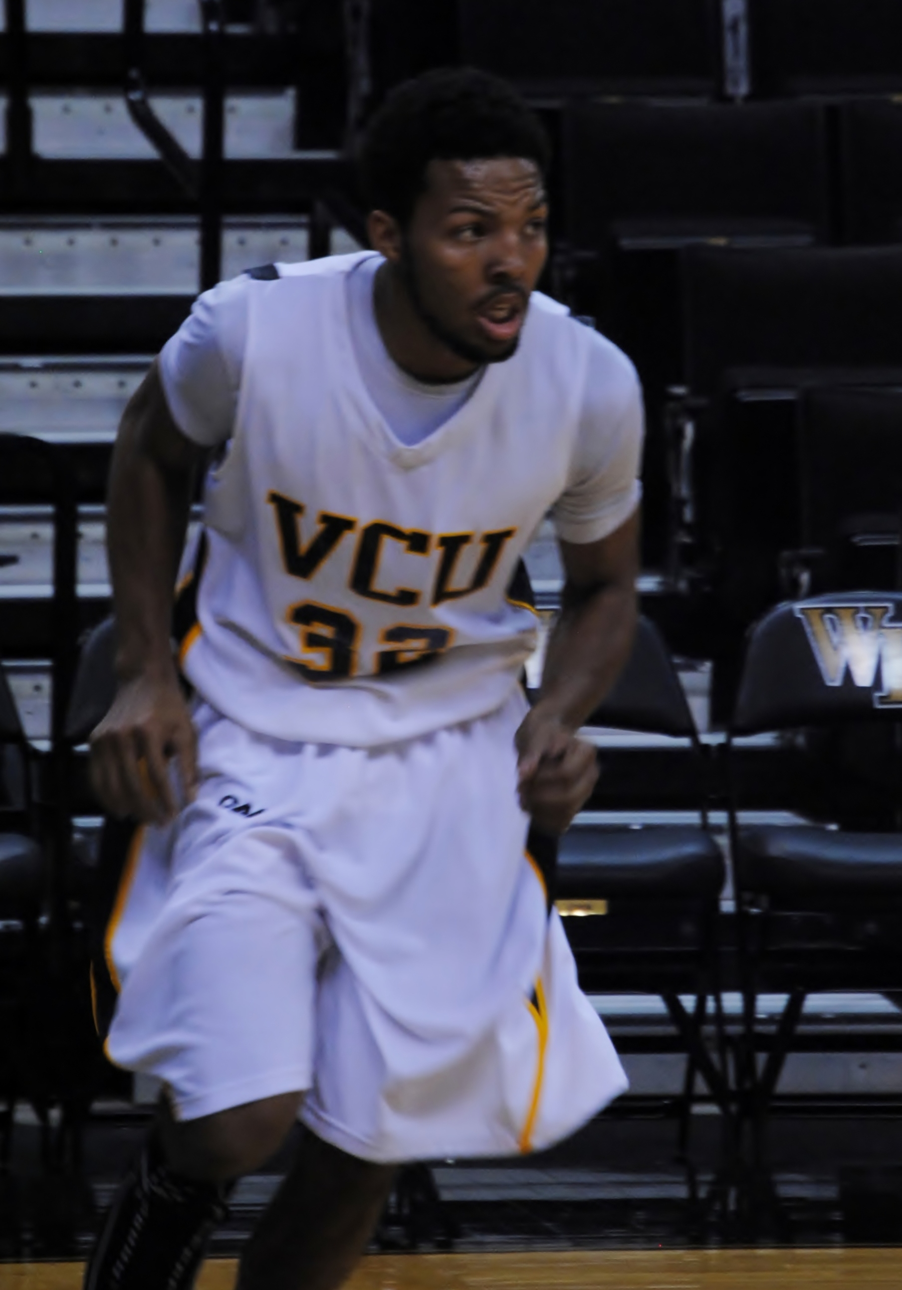 Brandon Rozzell in the Opening round of the Preseason NIT In Winston-Salem, North Carolina